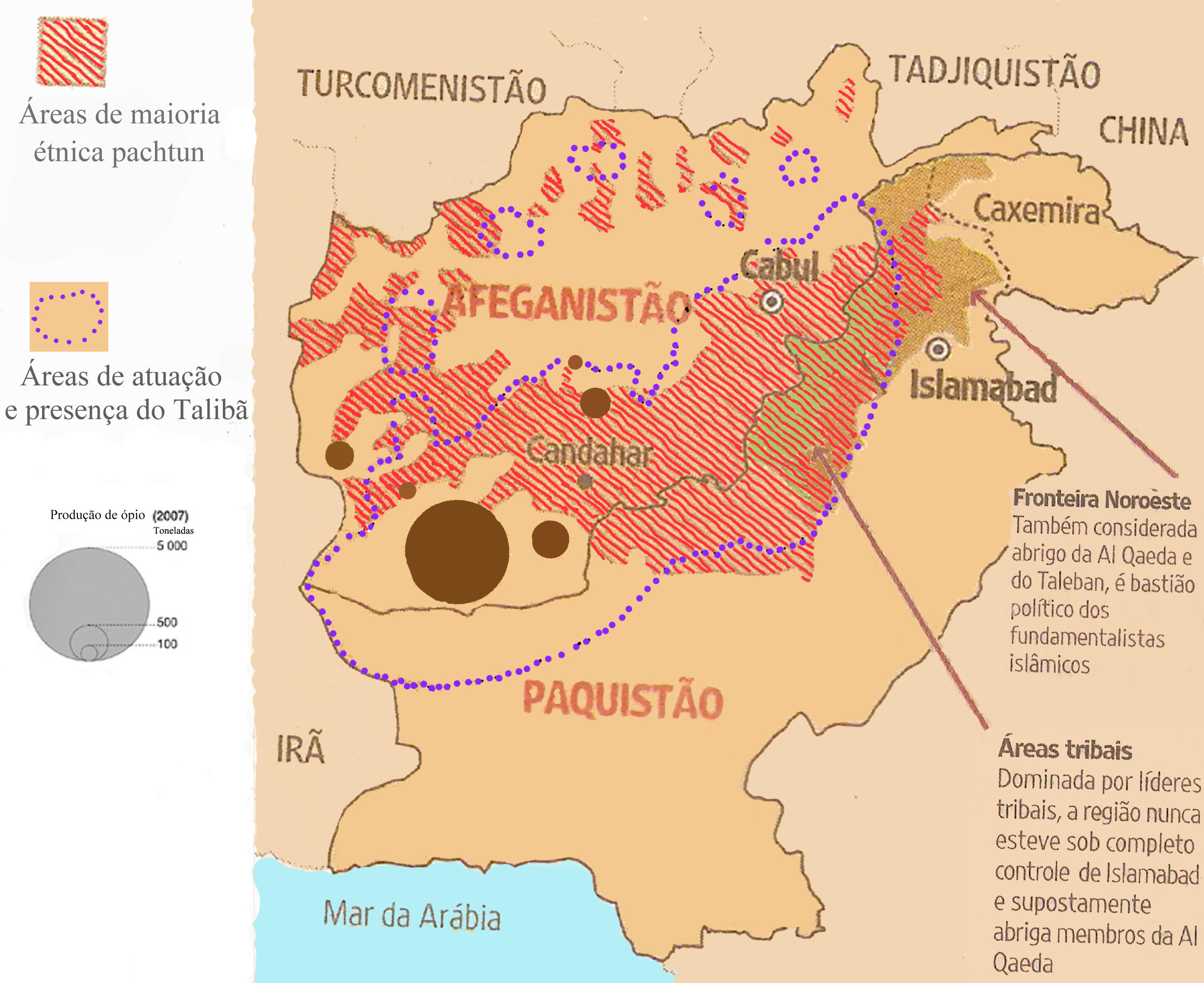 Map showing areas and presence of the Taliban insurgency in Afghanistan and Pakistan.